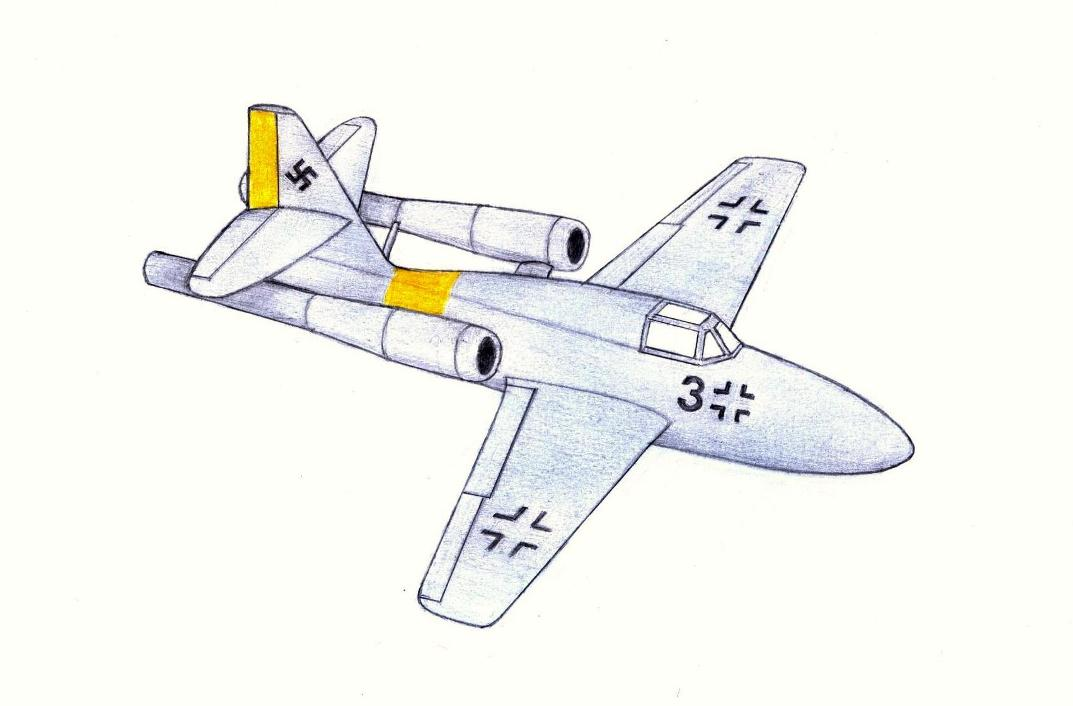 Pencil drawing of a Messerschmitt Me 328 B